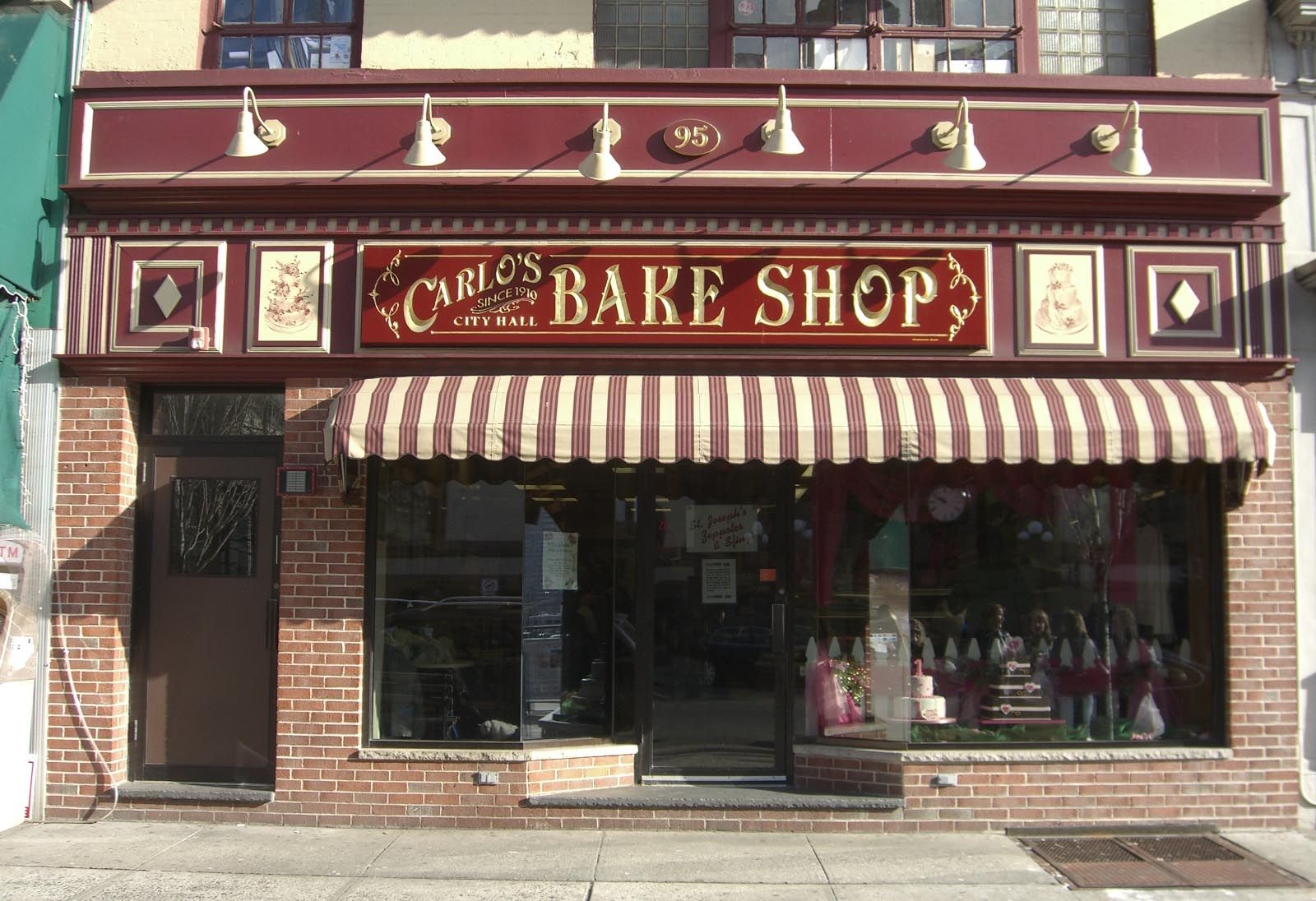 Carlo’s Bake Shop in Hoboken, New Jersey, The shop, which is located on Washington Street between 1st Street and Newark Street, across from City Hall, is the setting for The Learning Channel’s reality television series, Cake Boss. This photo was created by Luigi Novi. It is not in the public domain, and use of this file outside of the licensing terms is a copyright violation.